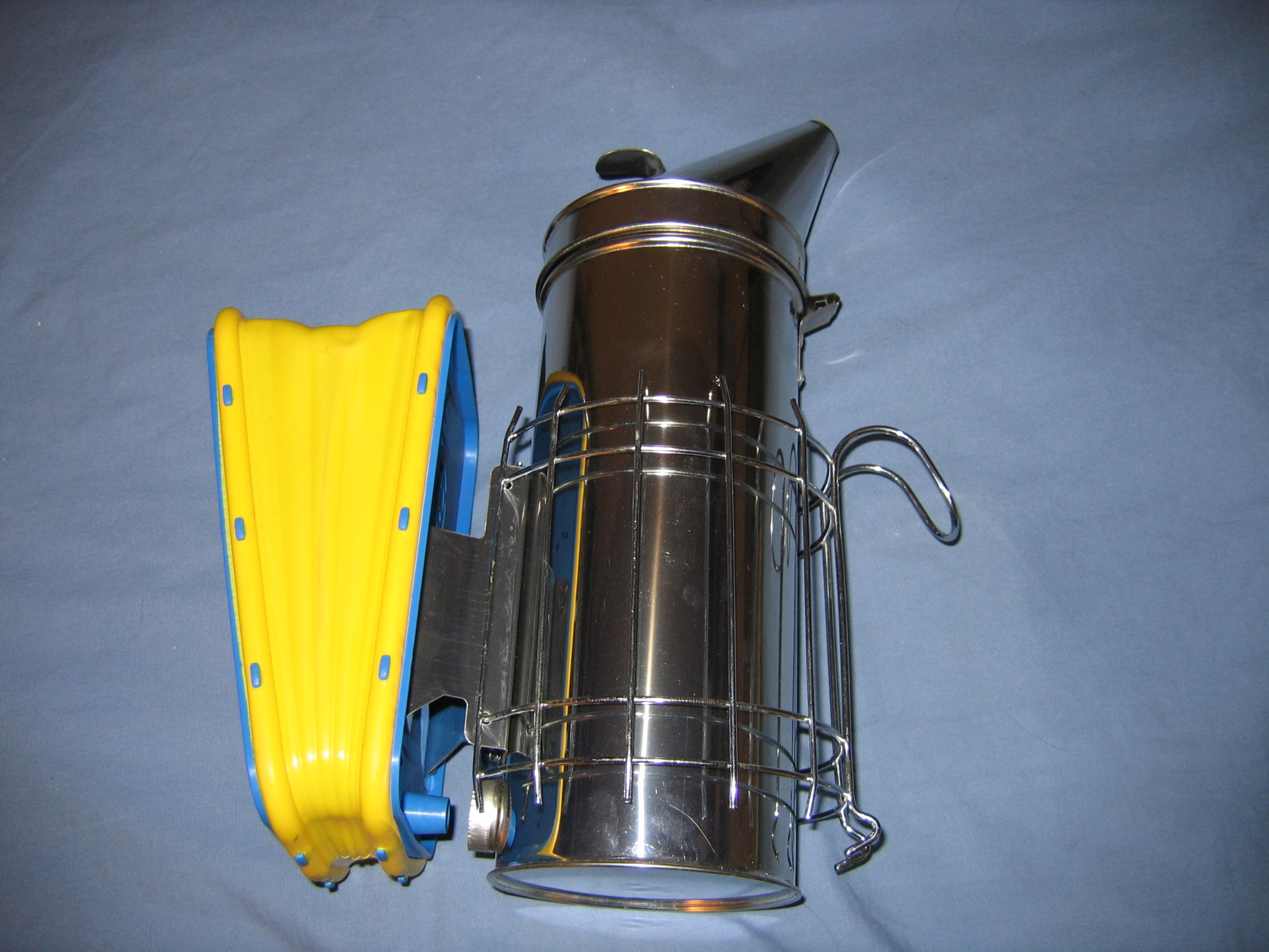 wire guarded 4 by 10 inch stainless steel smoker